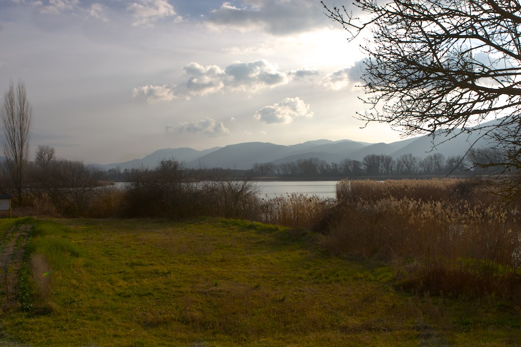 Riserva parziale naturale dei Laghi Lungo e Ripasottile wilderness (Province of Rieti, Lazio, Italy)